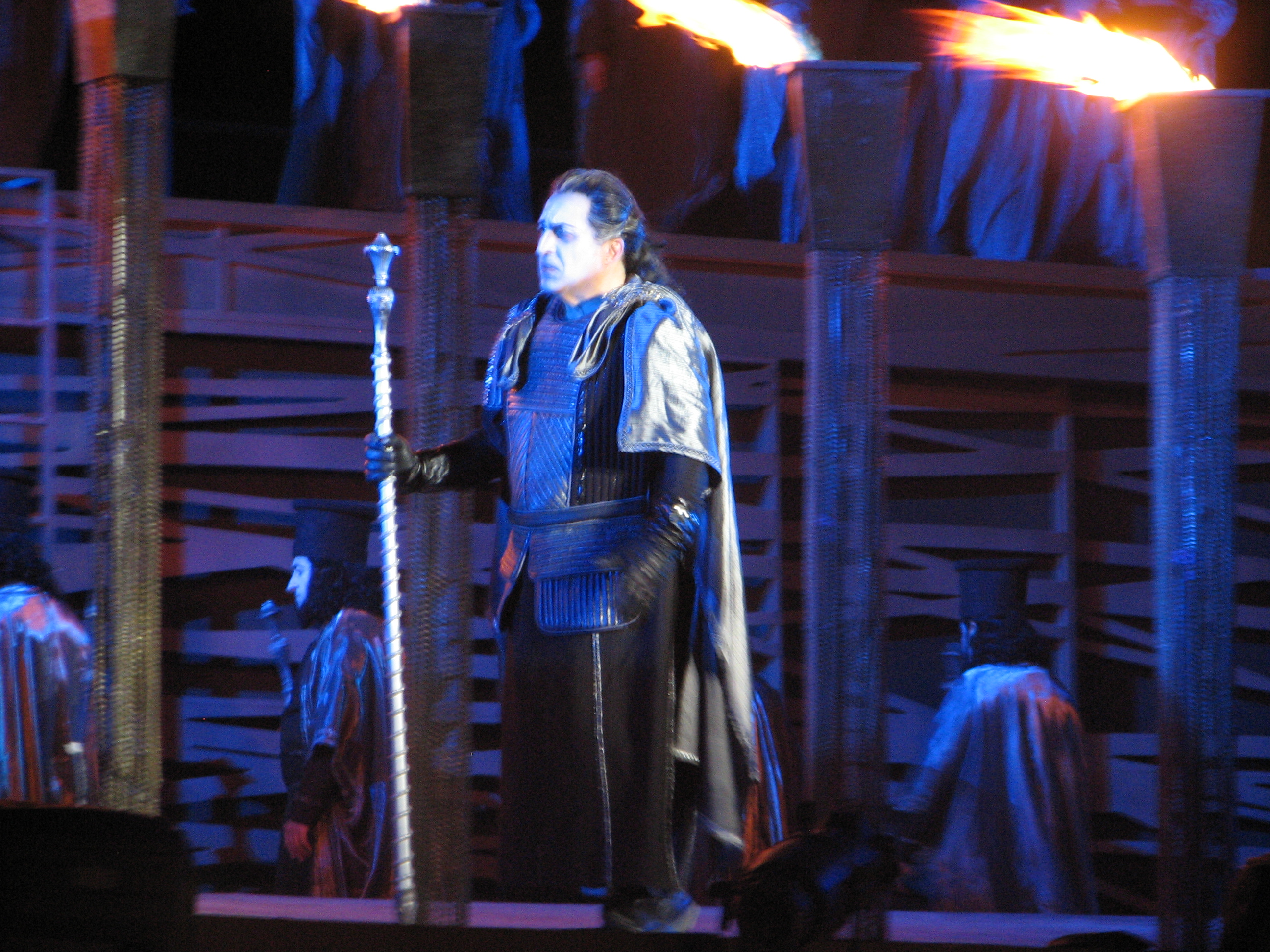 Zaccaria: Paata Burchuladze Nabucco is an opera in four acts by Giuseppe Verdi. - Nabucco on Masada in Israel. Conductor Daniel Oren